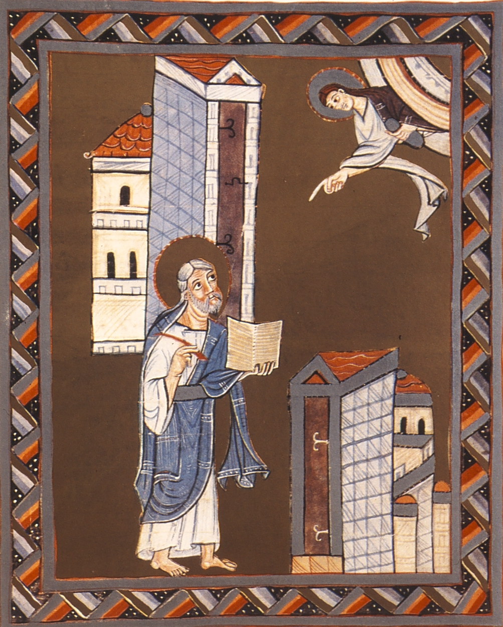 John writes to the churches of Ephesus and Smyrna